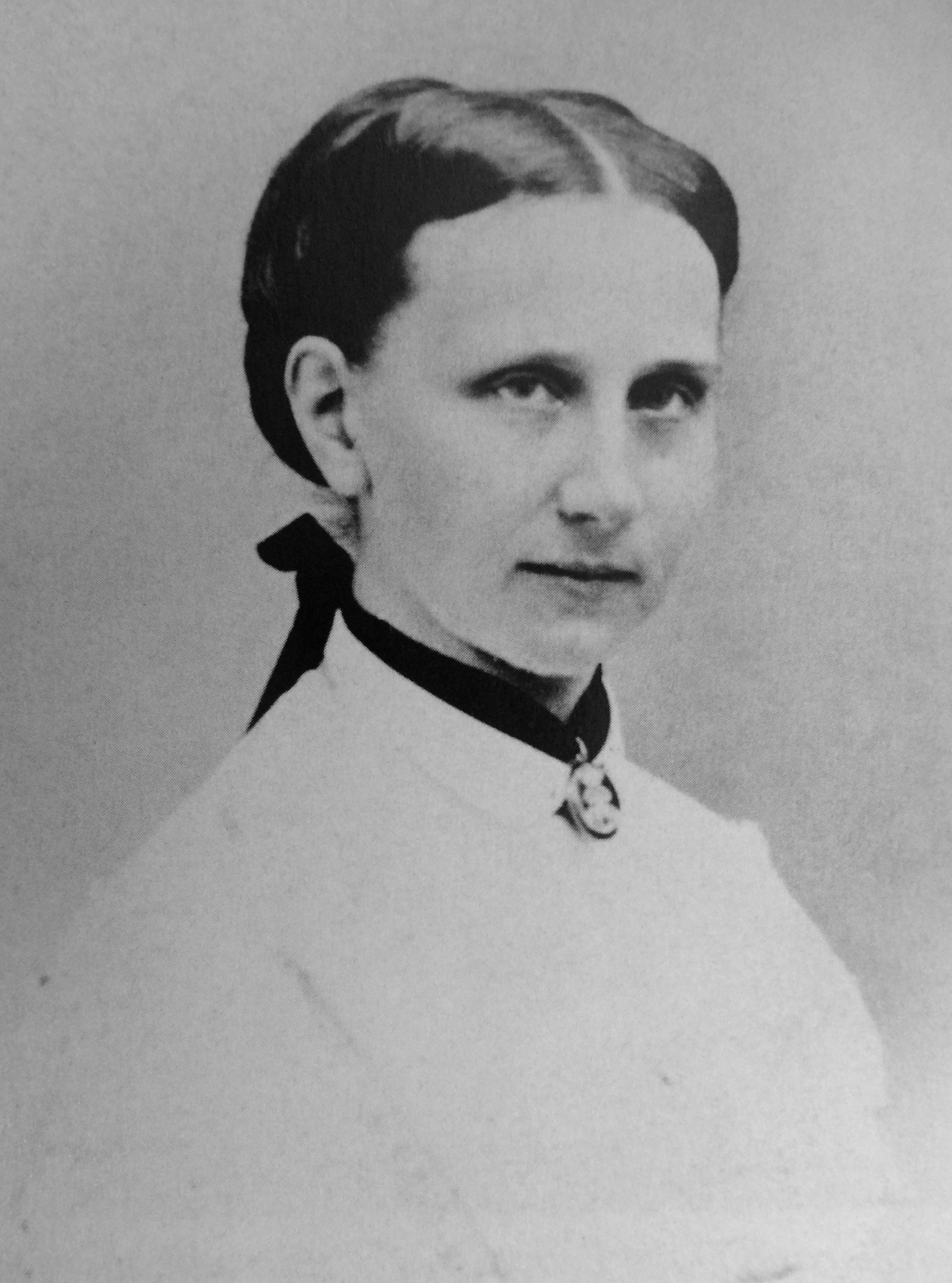 Princess Louise of Prussia